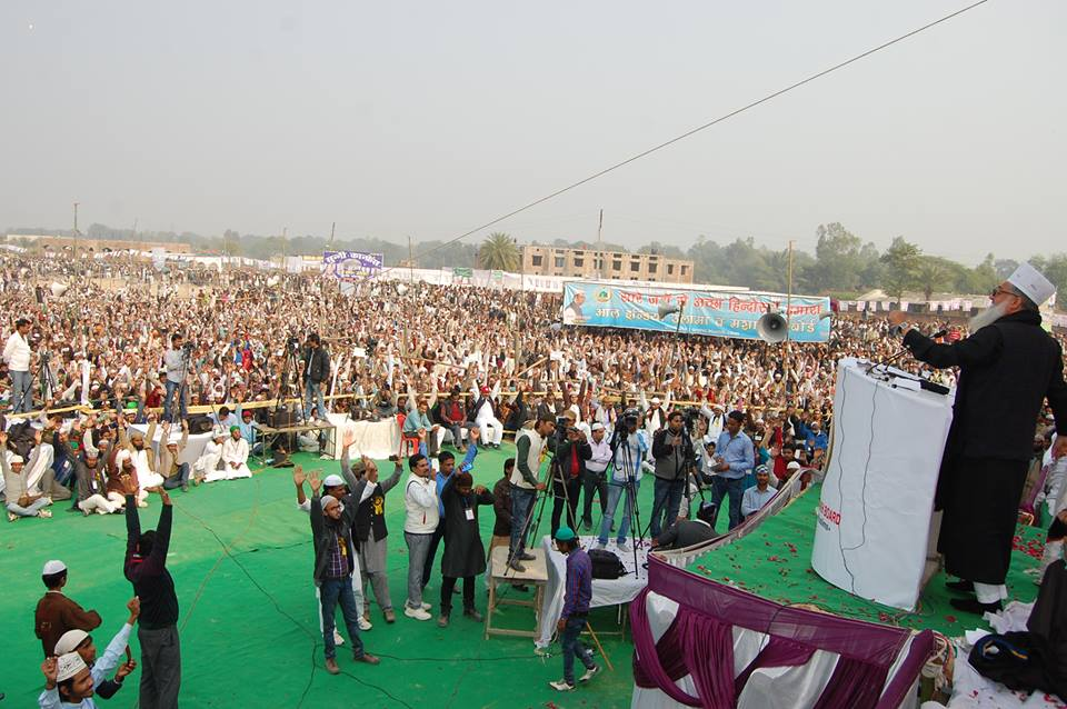 AIUMB Sunni Coference in Jagdishpur Amethi